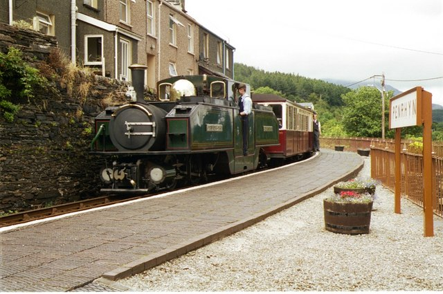 Penrhyn Station on the Ffestiniog Railway. The station is called Penrhyn, to distinguish it from the Network Rail station of Penrhyndeudraeth, located at the other end of town.